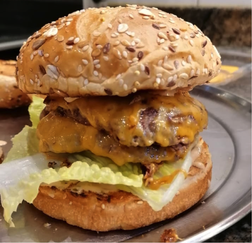 In & Out burger sauce way